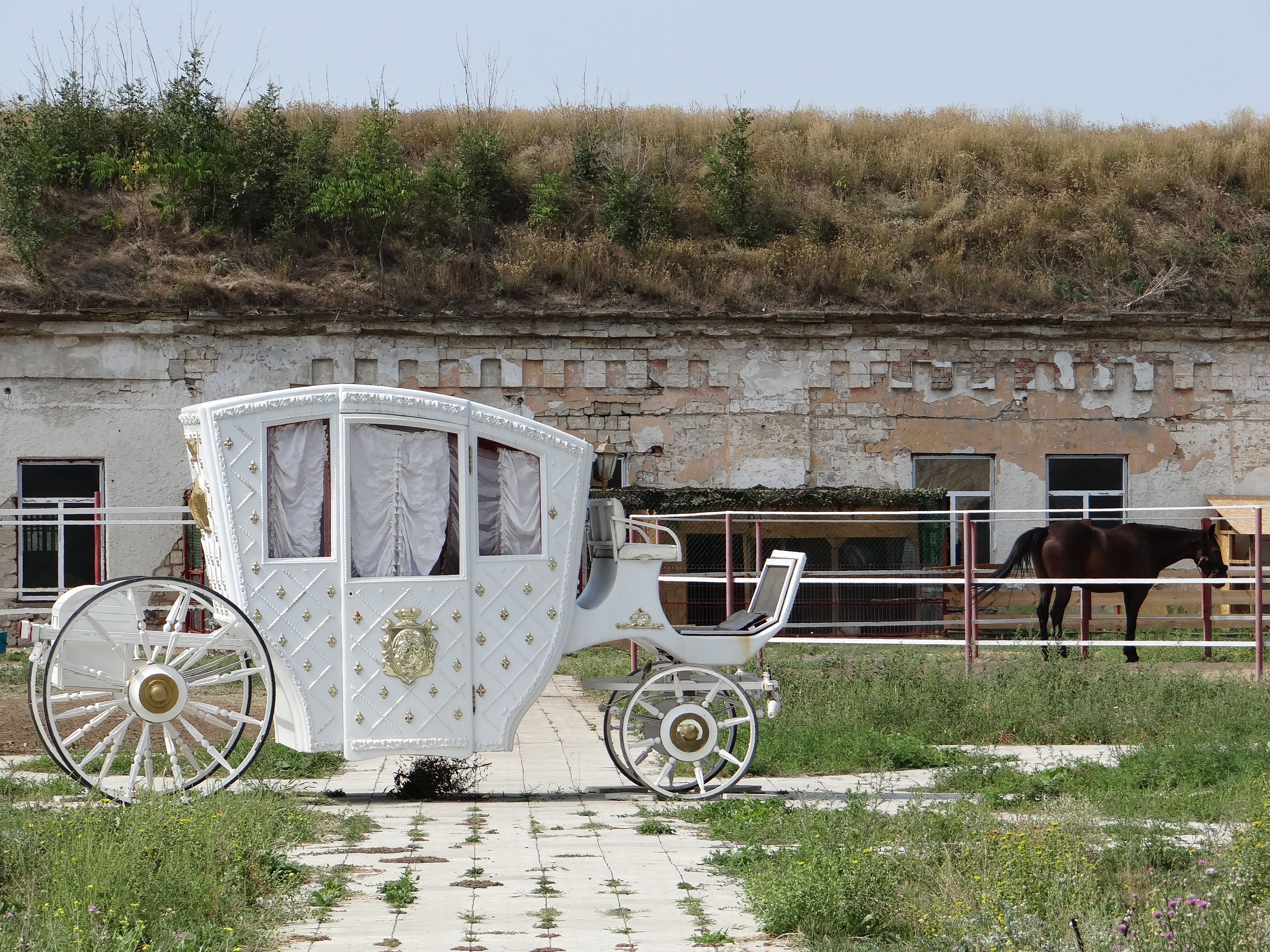 Horse and Carriage - Bendery Fortress - Bendery - Transnistria